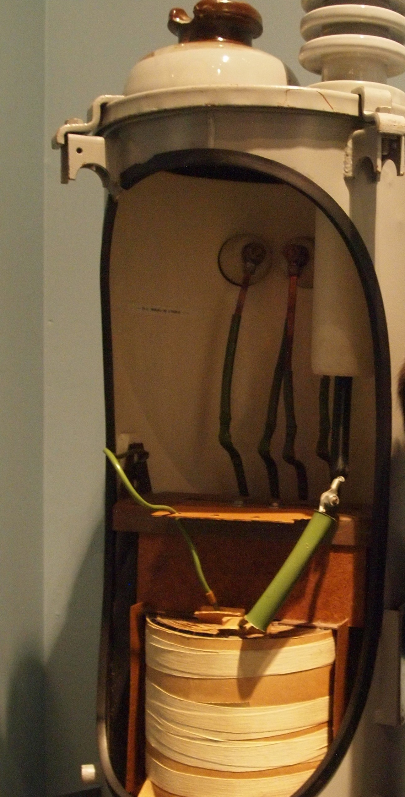 Cutaway of a pole mounted single-phase transformer with three-wire center-tapped "split-phase" secondary. Photo taken in Quebec, Canada.